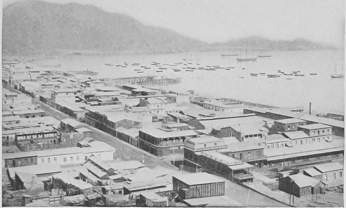 Identifier: cu31924021189315 Title: Chile today and tomorrow Year: 1922 (1920s) Authors: Joyce, Lilian Elwyn (Elliott), 1884- Subjects: Publisher: New York, The Macmillan company View Book Page: Book Viewer About This Book: Catalog Entry View All Images: All Images From Book Click here to view book online to see this illustration in context in a browseable online version of this book. Text Appearing Before Image: ns into what is to-day Argentine territory from the populous Central re-gion of Chile, while the lower passes were crossed to the south by way of many river valleys and by suchlakes as Llanquihue and Todos los Santos, a shortstrip only intervening between the latter beautifulwater and the lovely Nahuel Huapi in East Patagonia.During colonial times, with the depopulation of thewilder country and the concentration of towns uponthe seaboard, this traffic diminished and commercialexchange was limited to ocean transport, with, how-ever, an increasing intercourse with Argentina whenthe then Chilean provinces of Mendoza, San Luis andSan Juan developed trade with the new colonies ofBuenos Aires. But below Chiloe the territory re-mained unknown, and it has only been within recentyears that the southern lakes have been visited andsurveyed. As to the rivers during colonial times, if they werenot treated with equal neglect, their capricious wayswere permitted to absolve them from any great useful- Text Appearing After Image: Taltal, a Nitrate Port of North Chile.